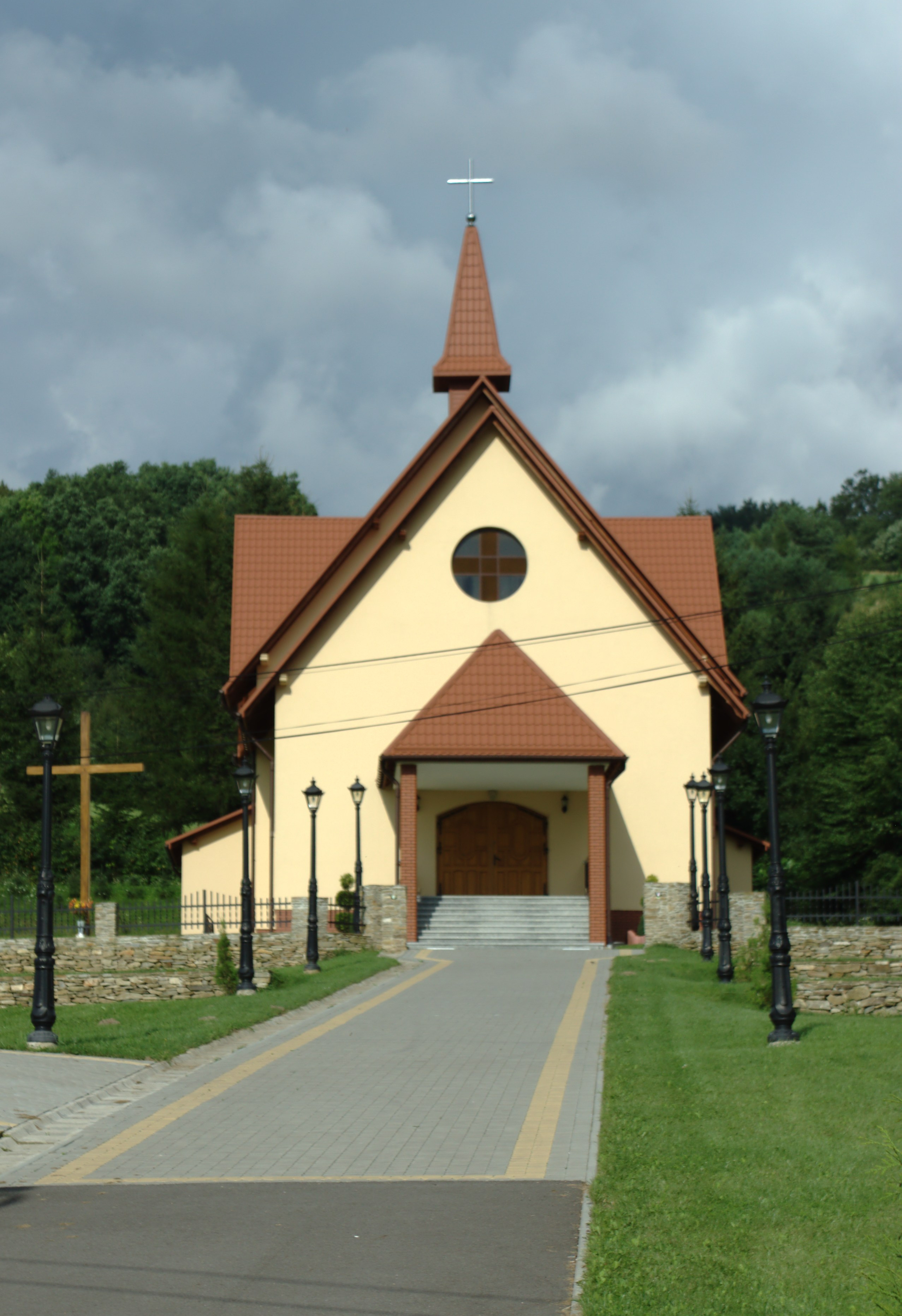 Our Lady Queen of Poland church in Siedliska, Podkarpackie Voivodeship, Poland